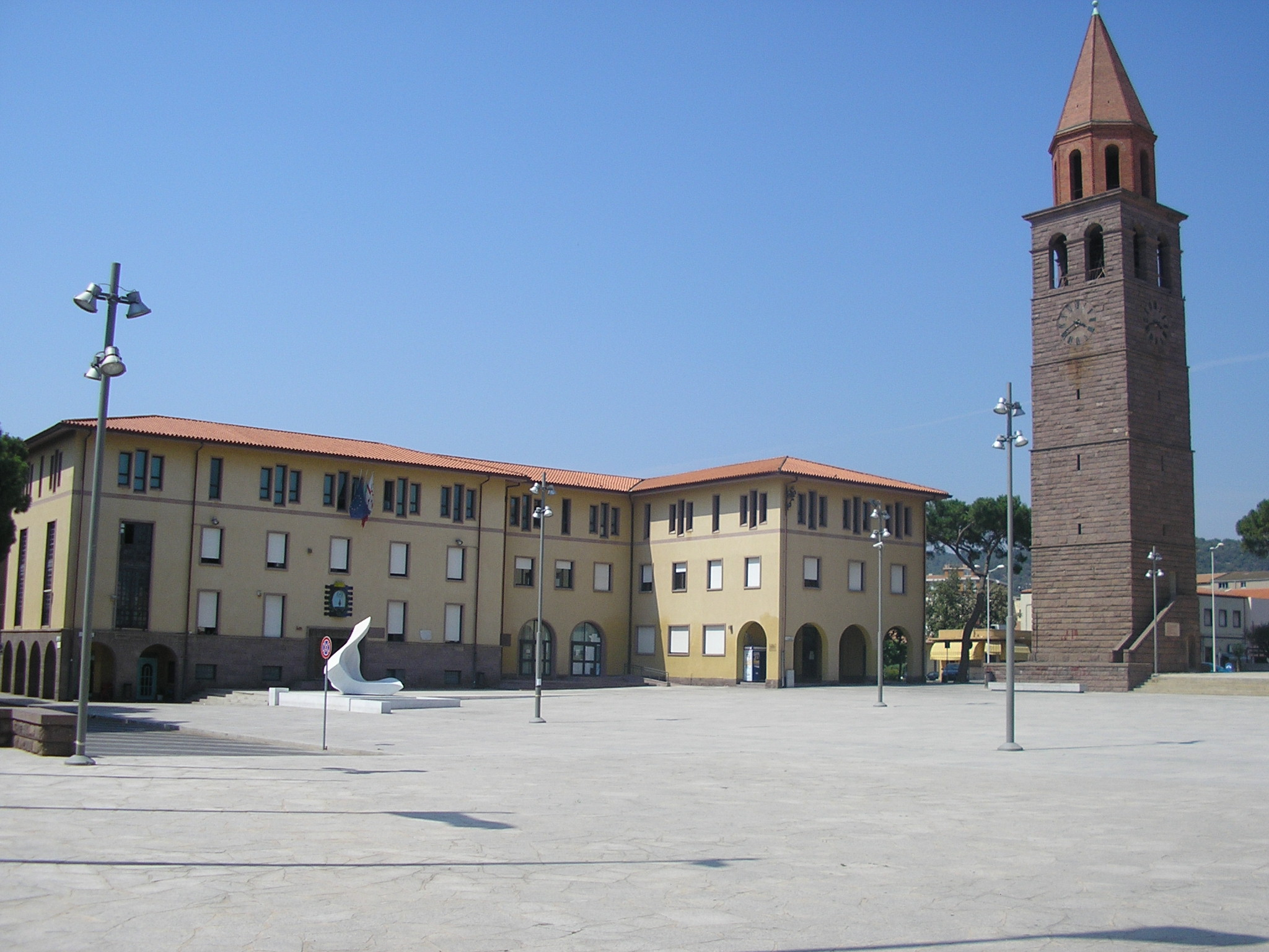 Piazza Roma in Carbonia, Sardinia, Italy. On the left the city hall, on the right the clock tower of Saint Pontian church